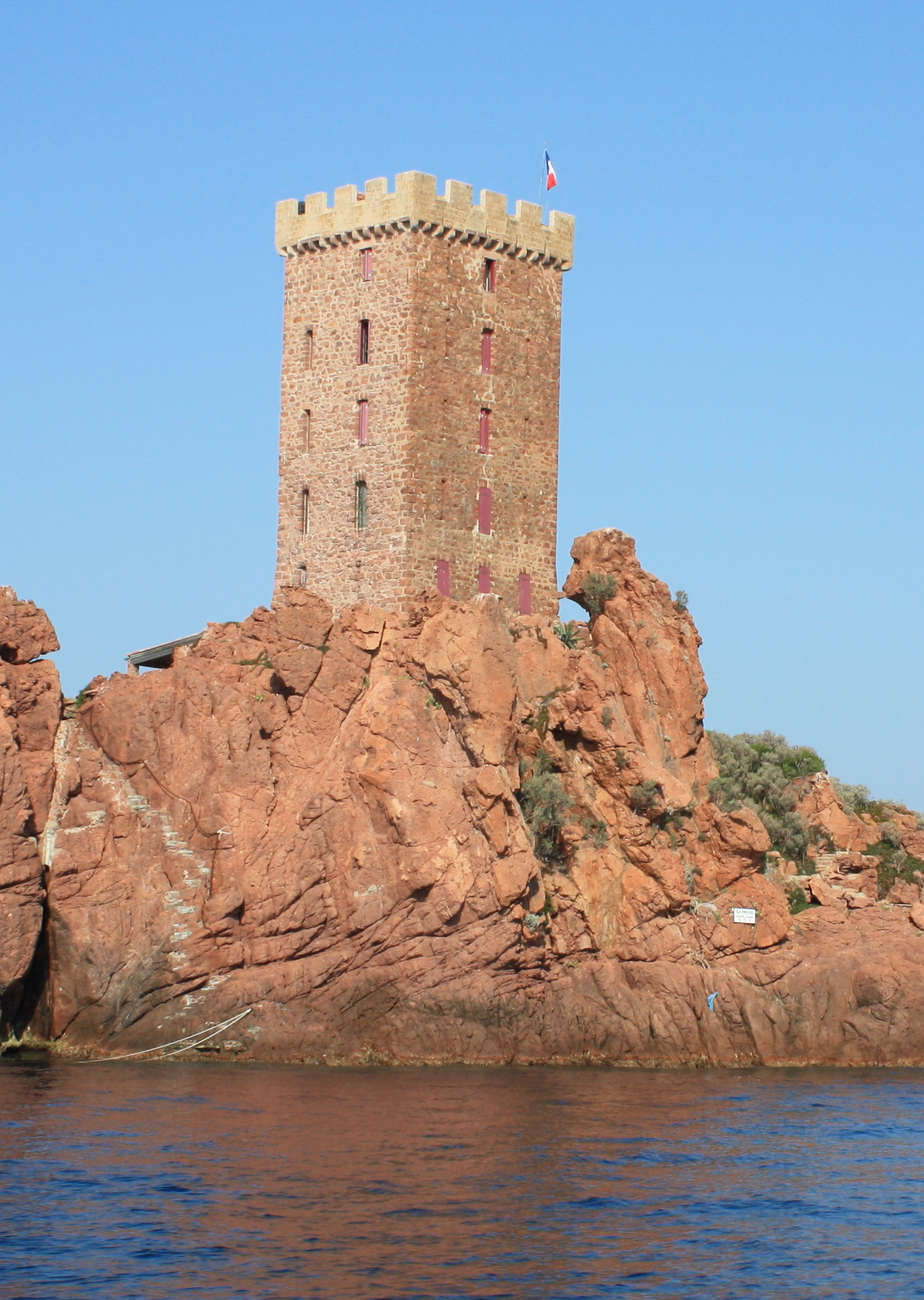 Île d'Or seen from the east